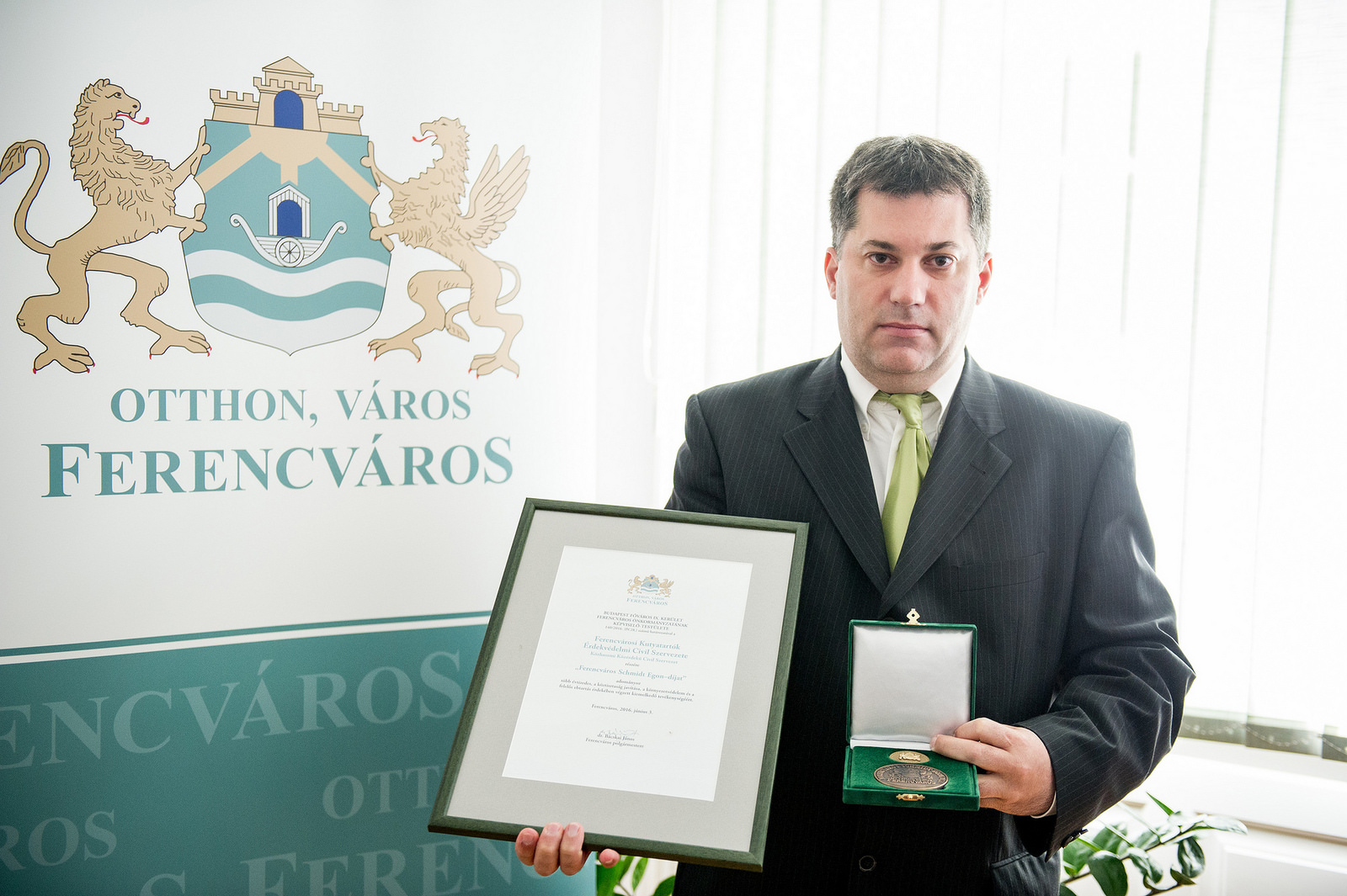 Dr. David Balázs Horvath